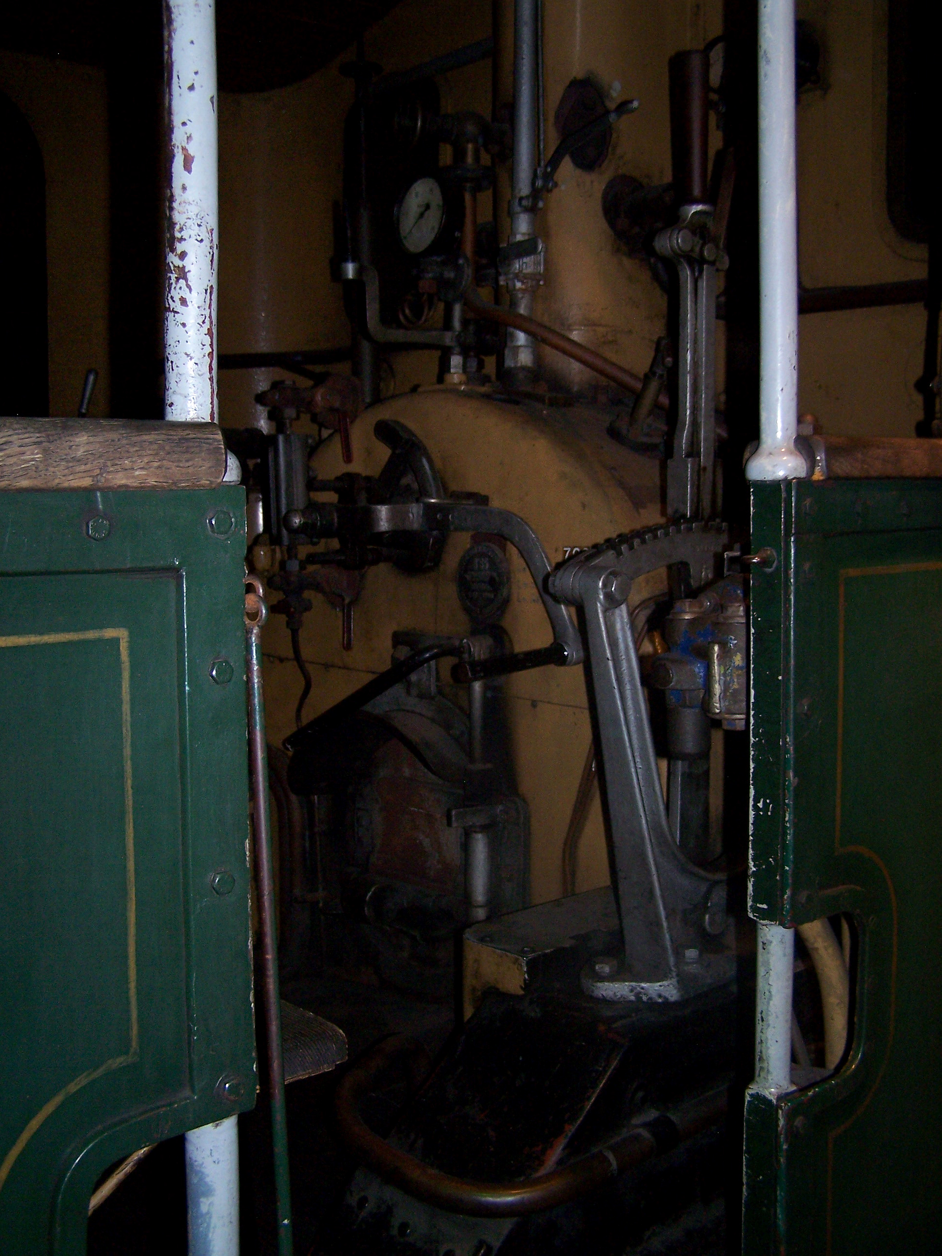 Drive cab of the historic steam locomotive Licaon from 1851 of the former Kaiser Ferdinands-Nordbahn (KFNB) in the Transport Museum in Nuremberg in the exhibition "Adler, Rocket and Co."